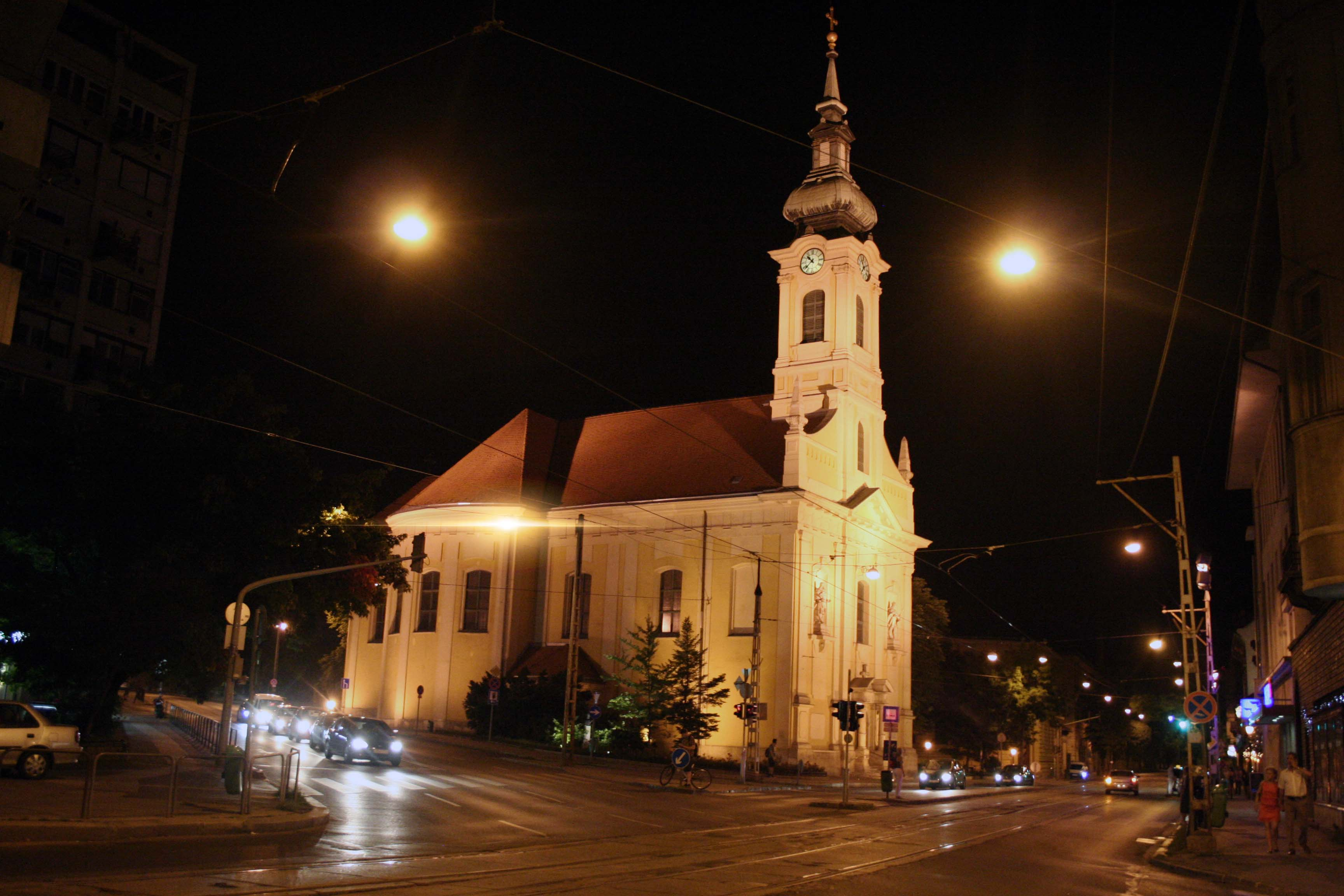 Church of Krisztinaváros by night, I.distr., Mészáros u. 1, Budapest, Hungary